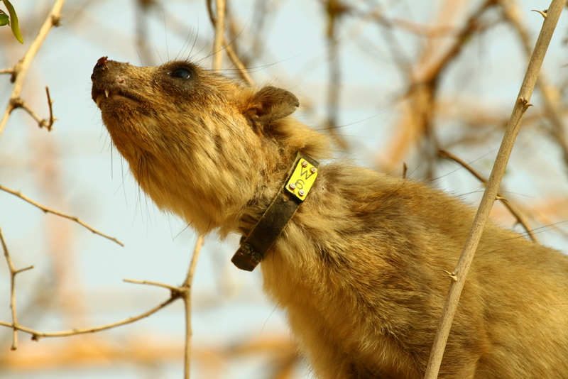 Collar tagged Rock Hyrax (Procavia capensis)